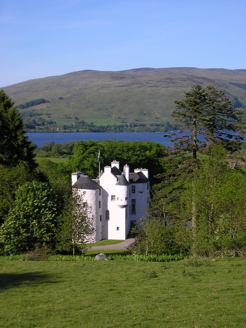 Edinample Castle